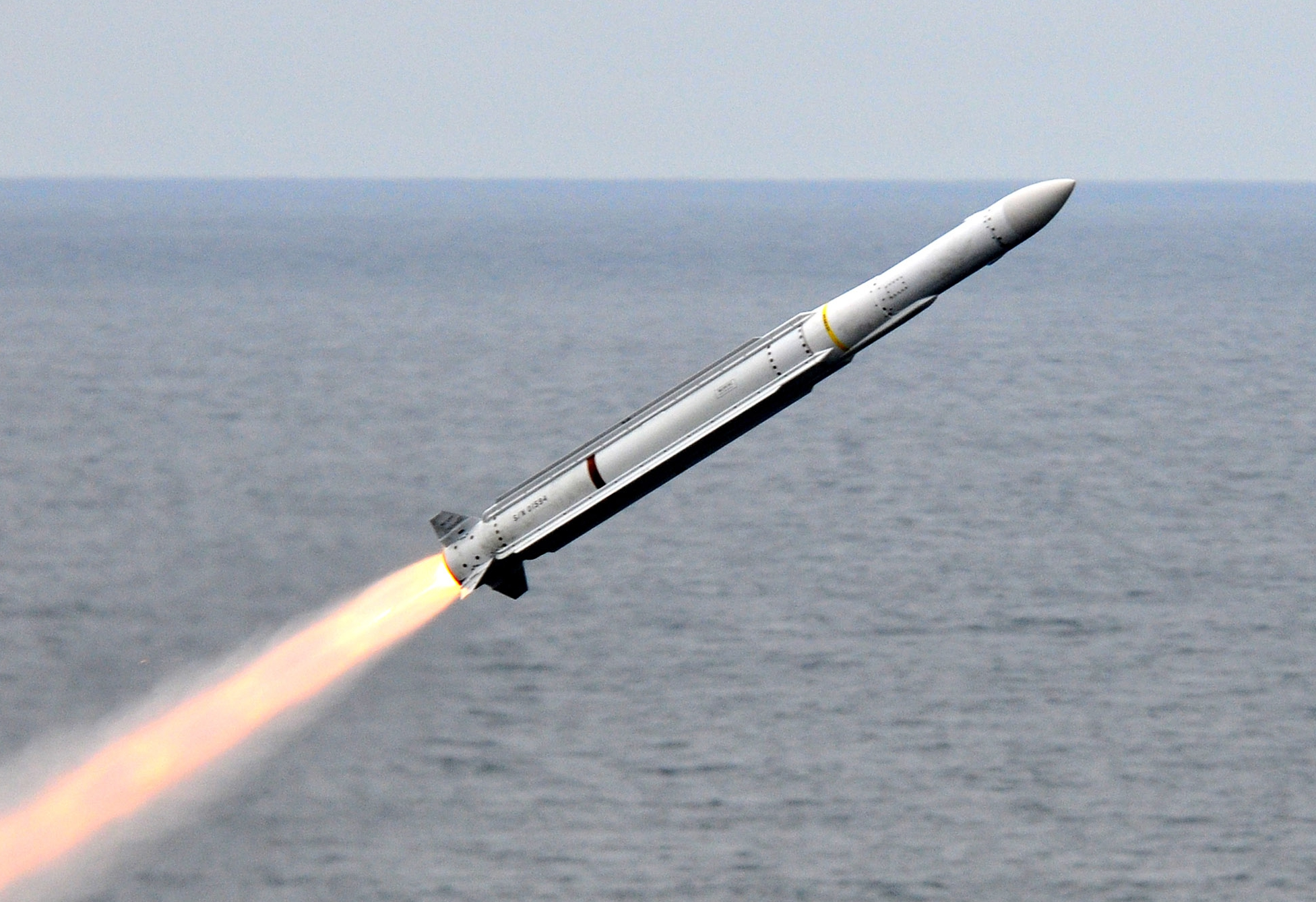 An RIM-162 Evolved Sea Sparrow missile is launched from the aircraft carrier USS Carl Vinson (CVN-70) off the coast of Southern California (USA), on 23 July 2010.